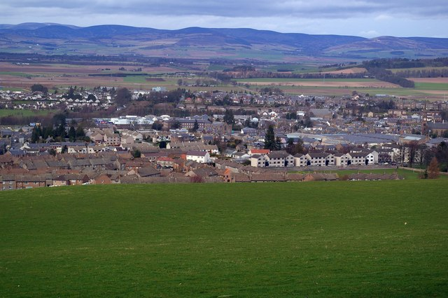 View of Forfar and countryside north of Forfar This photograph was taken from Balmashanner Hill, Forfar and looks northwards in the direction of Heatherstacks Farm. The countryside beyond culminates in the Grampian Mountains.